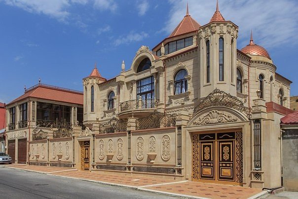 Qirmizi qesebe in Guba